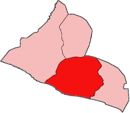 Map of Grand Kru County, Liberia showing Upper Kru Coast District; created with the GIMP. Made by User:Acntx.